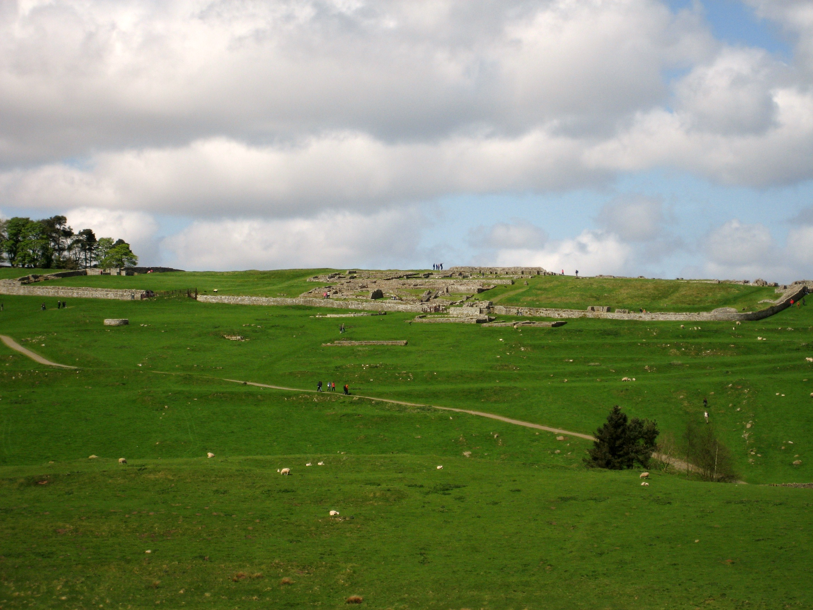 Housesteads Roman Fort at Hadrian's Wall viewed from south